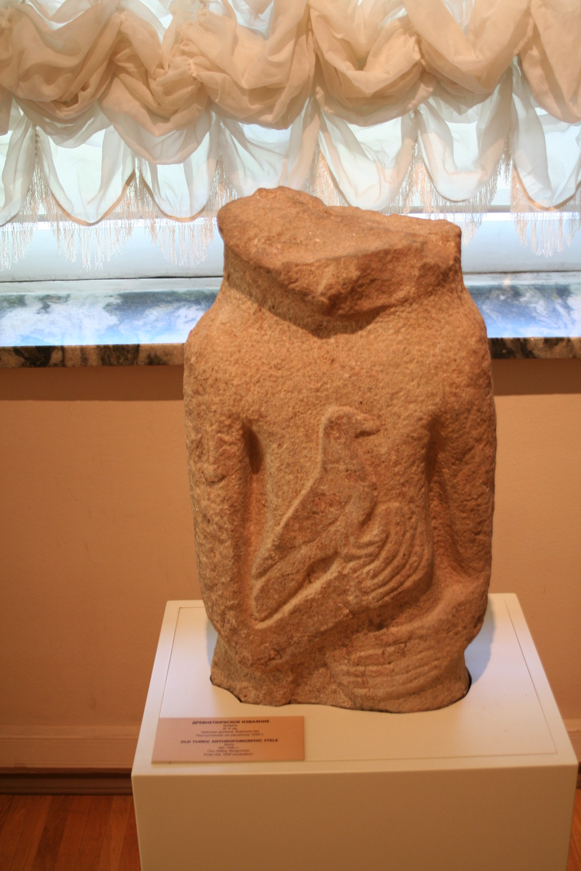 Old turkic anthropomorphic stele in Hermitage. IX-X cc. Chuy Valley, Kyrkyzstan.